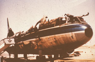 A close-up of the damage inflicted by the fire on Saudia Flight 163.